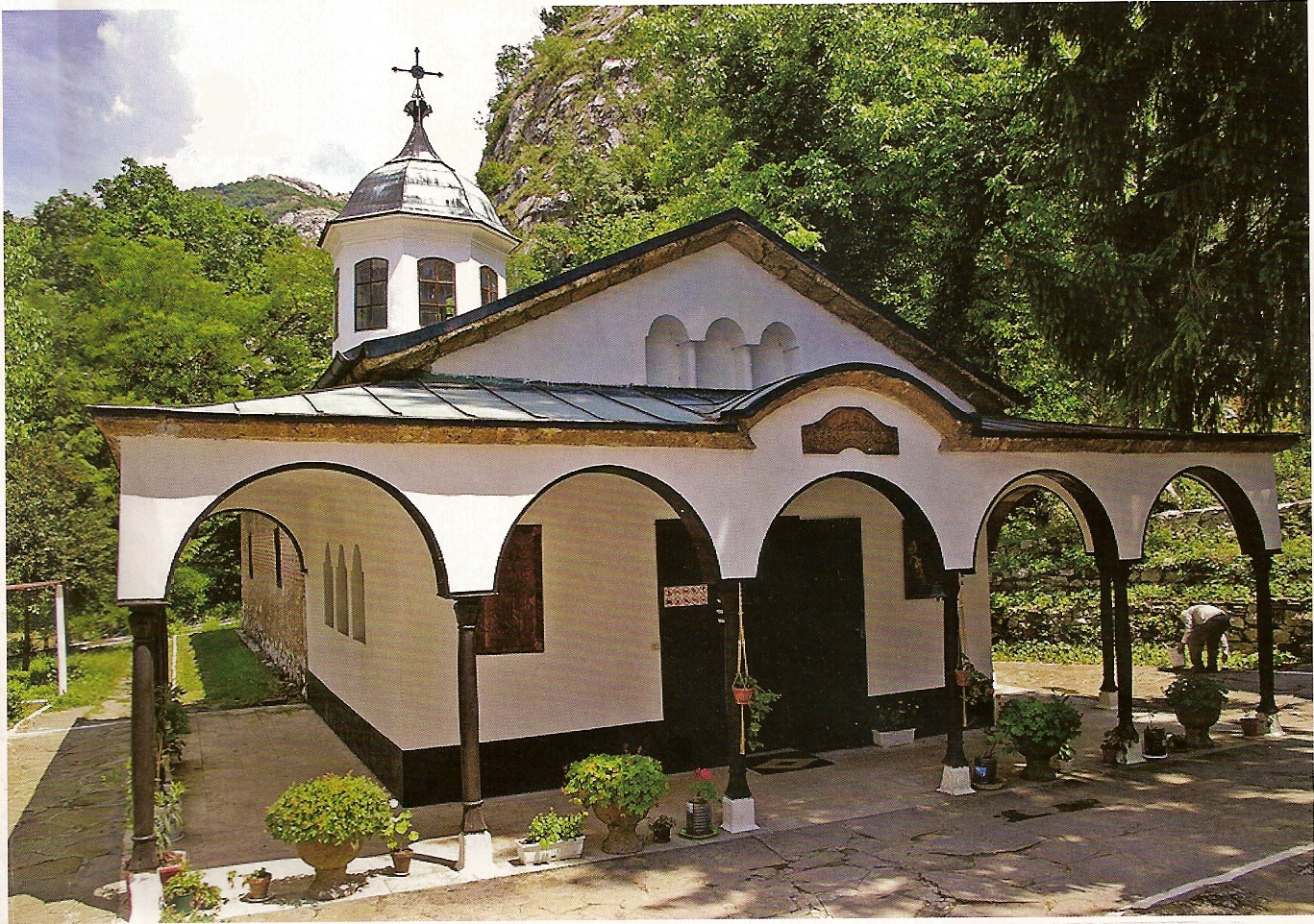 Pictures of a bulgarian monastery near the city of Vratza. There is also a map which shows where the monastery is located.